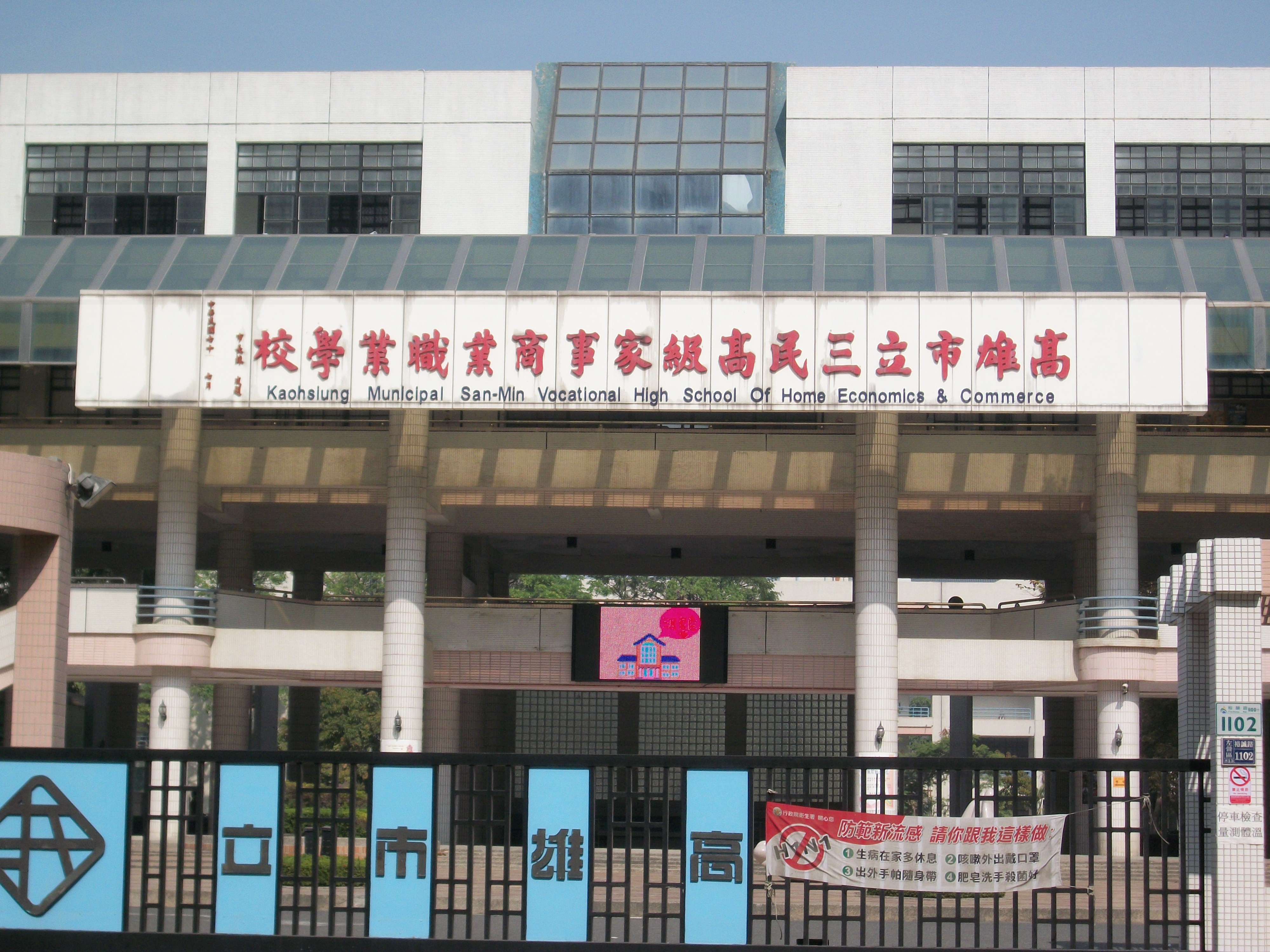 Kaohsiung Municipal Sanmin Home Economics & Commerce Vocational High School.